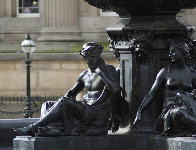 Here's looking at you Figures on the fountain next to the Wellington Column near to St George's Hall